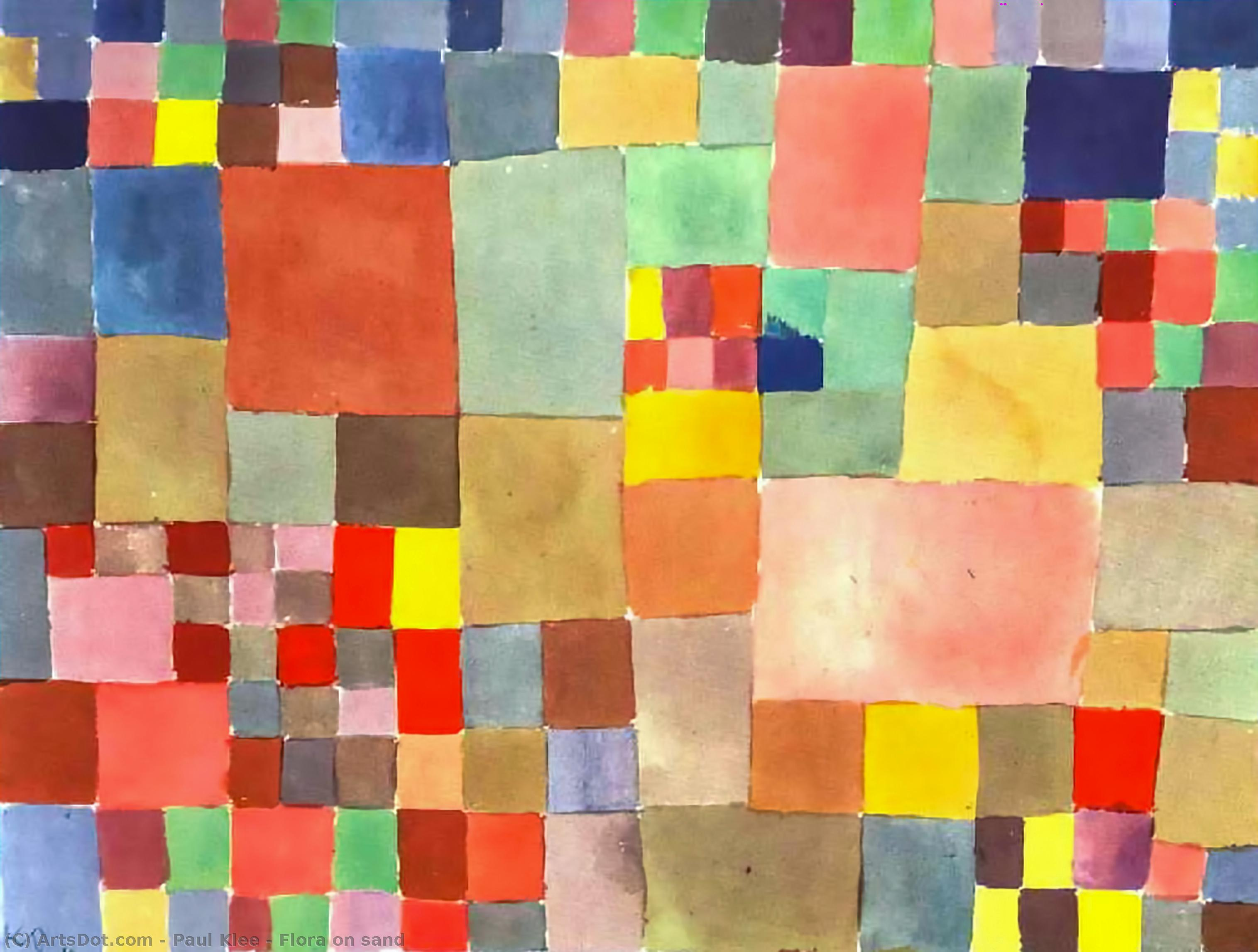 Paul Klee --- Flora on sand ---1927